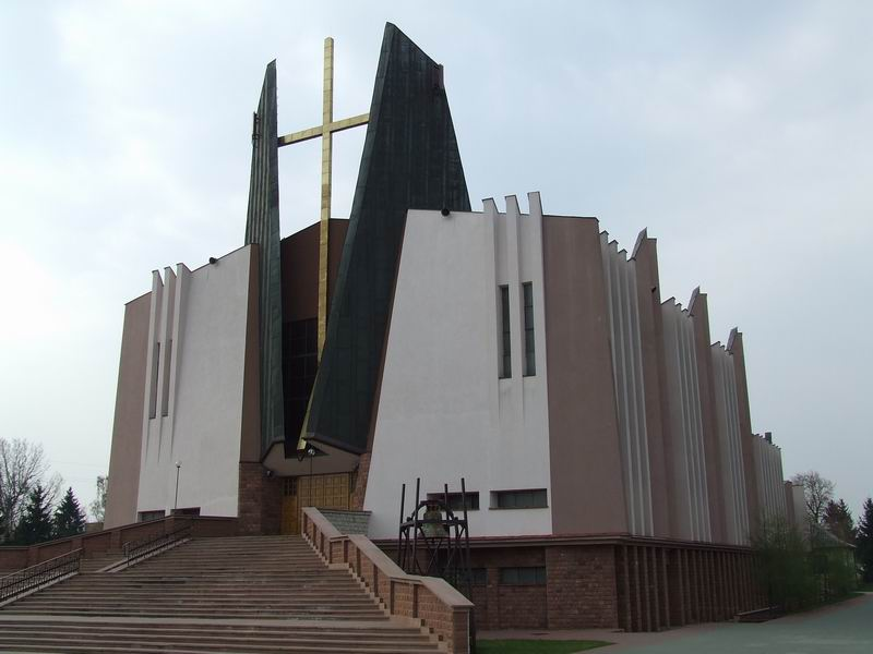 Saint Margaret of Antioch church in Łomianki, Poland